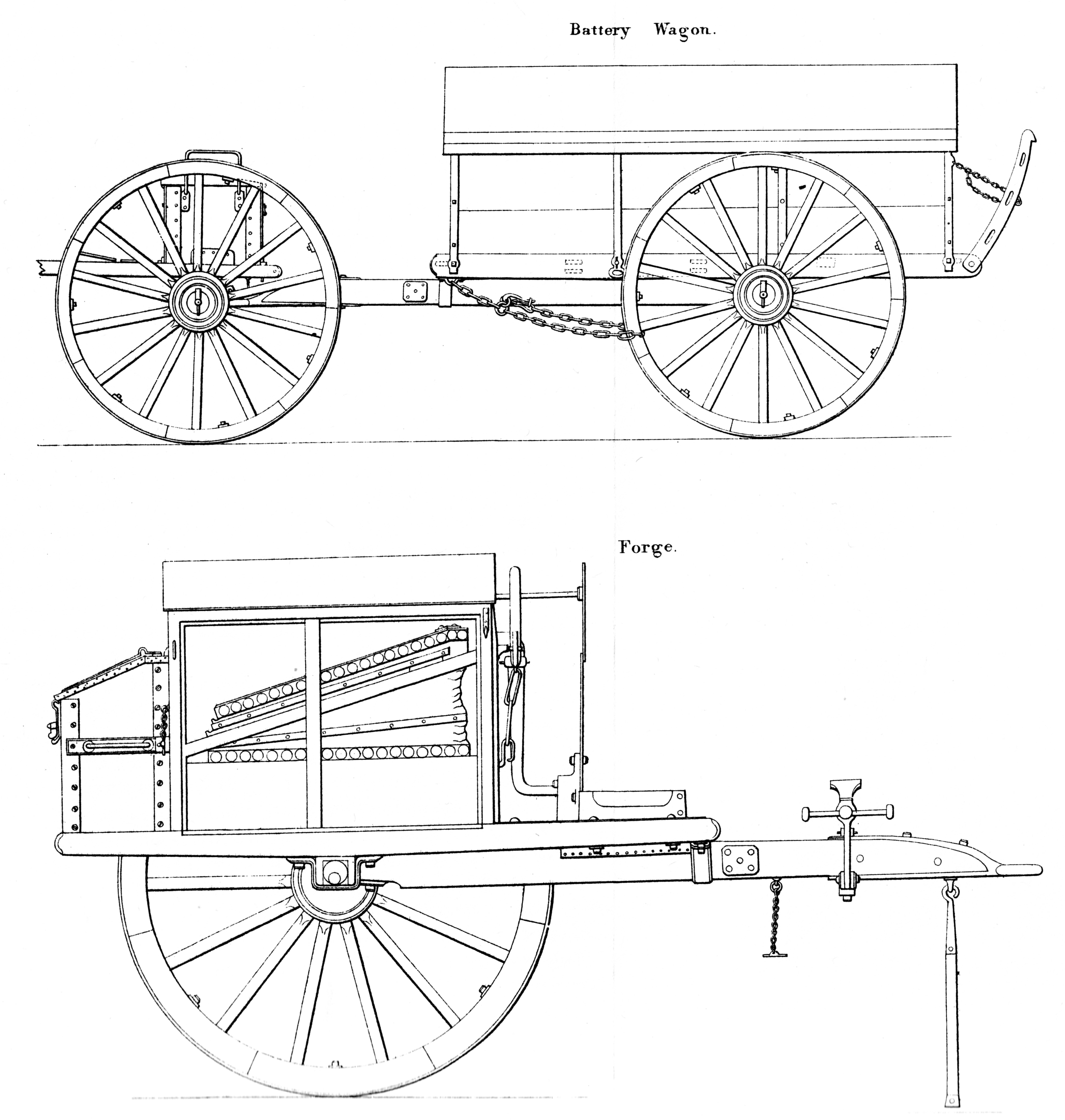 Line engraving of a battery wagaon and portable forge